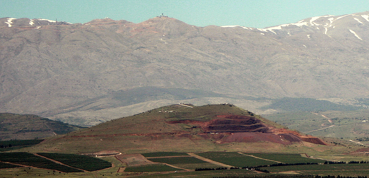 Mt. Baro'n, Golan hights, Israel.